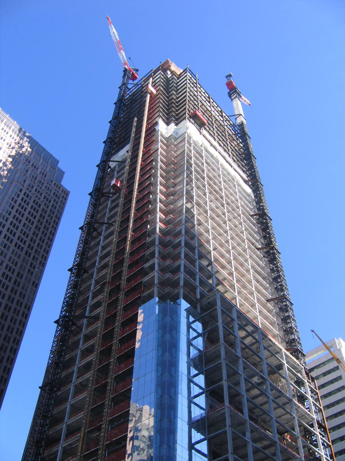 Southwestern view of the Comcast Center under construction